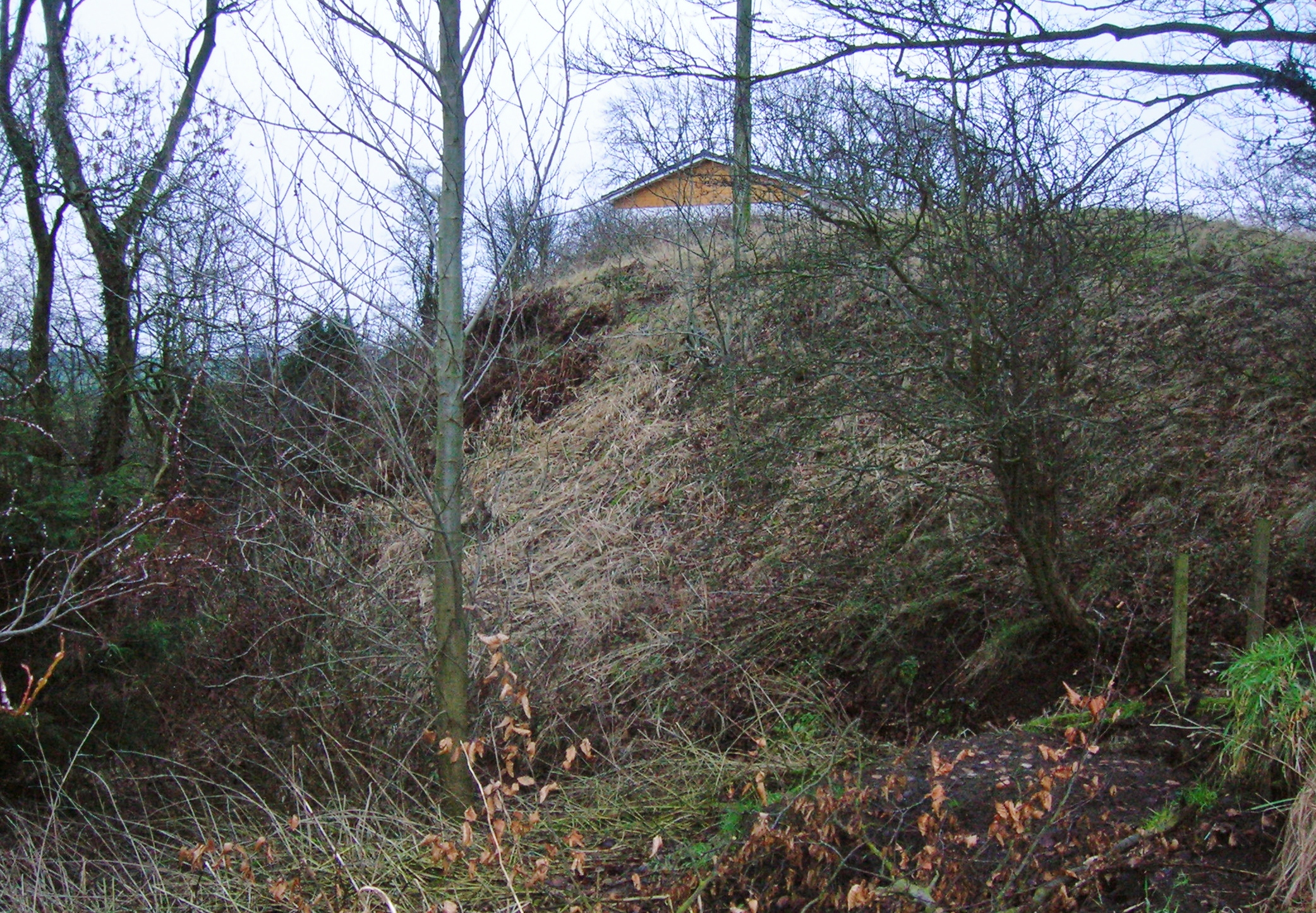 Helenton Mote or Moot Hill, Symington, South Ayrshire, Scotland